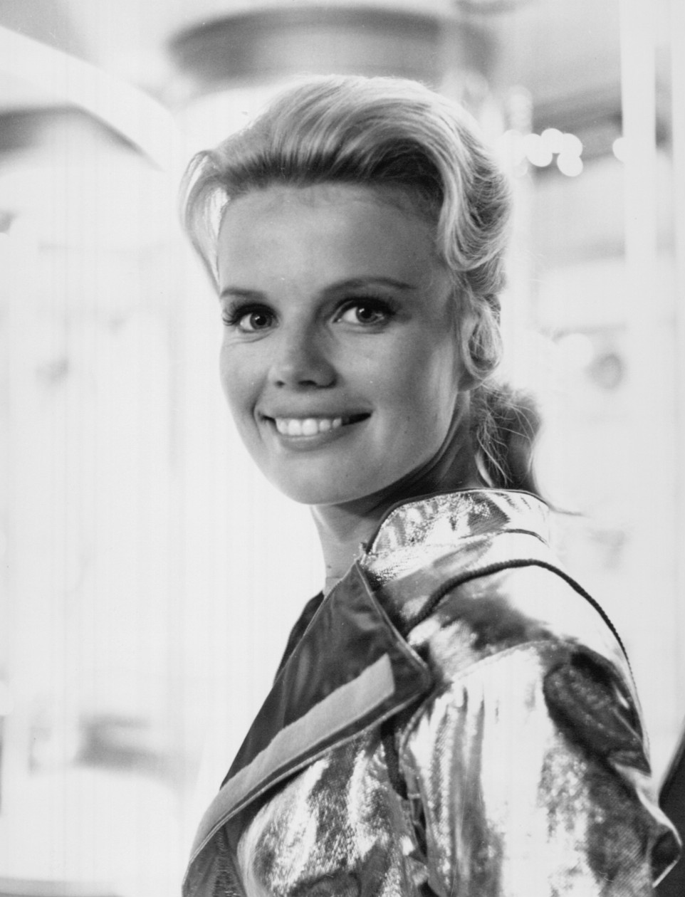 Photo of Marta Kristen from the television series Lost in Space.